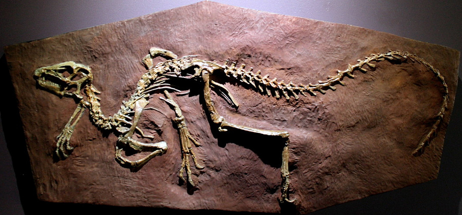 Cast of a fossilHeterodontosaurus